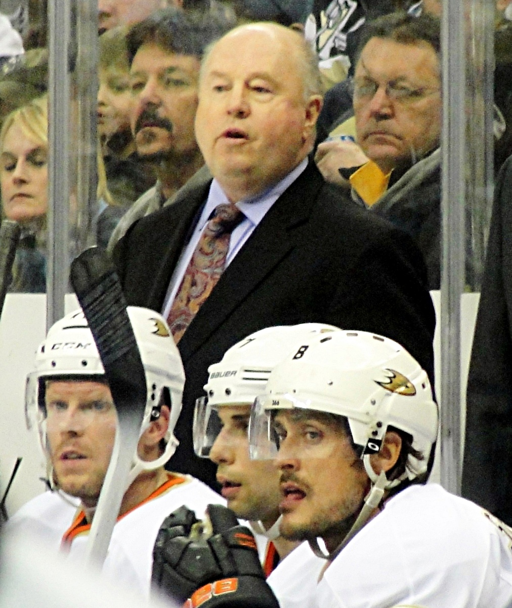 Anaheim Ducks head coach Bruce Boudreau looks on during a game against the Pittsburgh Penguins, February 15, 2012, at Consol Energy Center in Pittsburgh, PA.